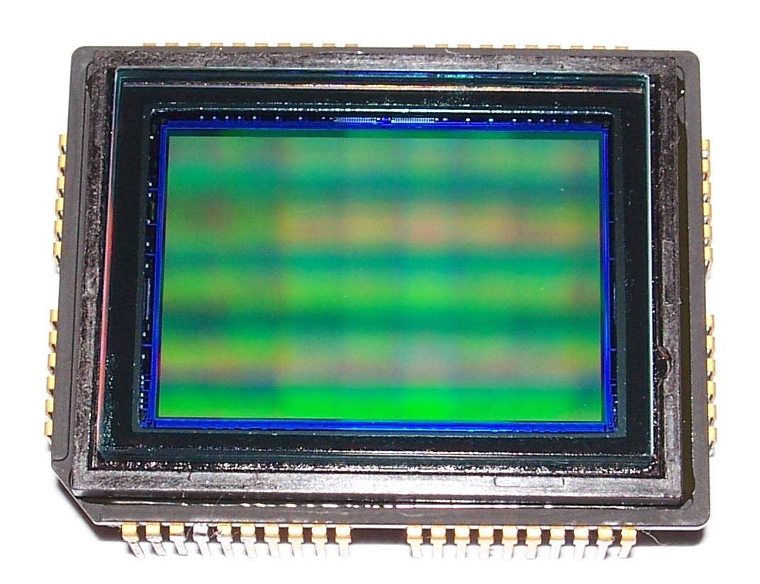 CCD image sensor SONY ICX493AQA 10,14 (Gross 10,75) M pixels APS-C 1.8" 28.328mm (23.4 x 15.6 mm) from module IS-026 from digital camera SONY DSLR-A200 or DSLR-A300 sensor side